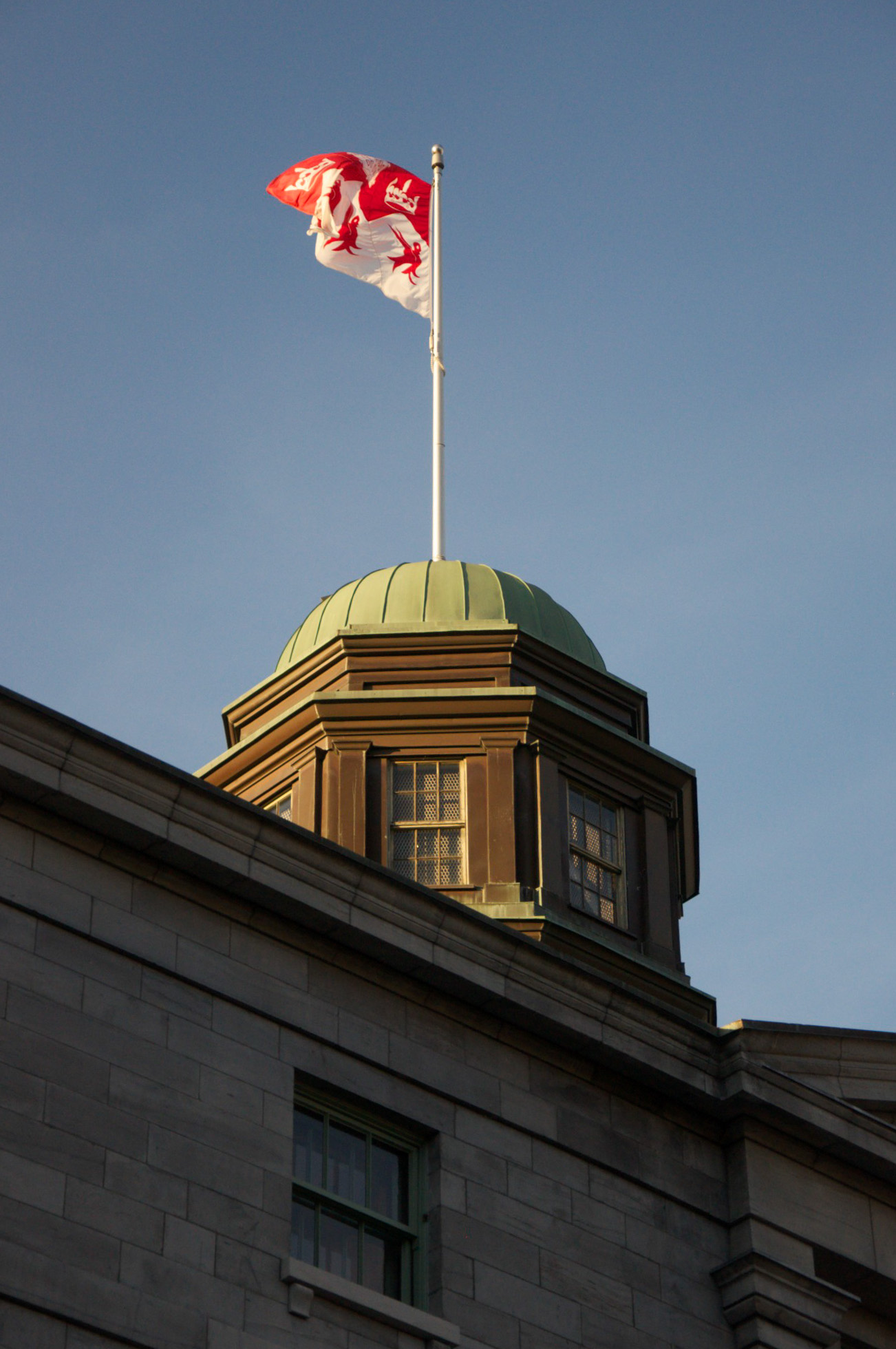 McGill flag on top of the Arts Building, downtown campus, Montreal, Canada